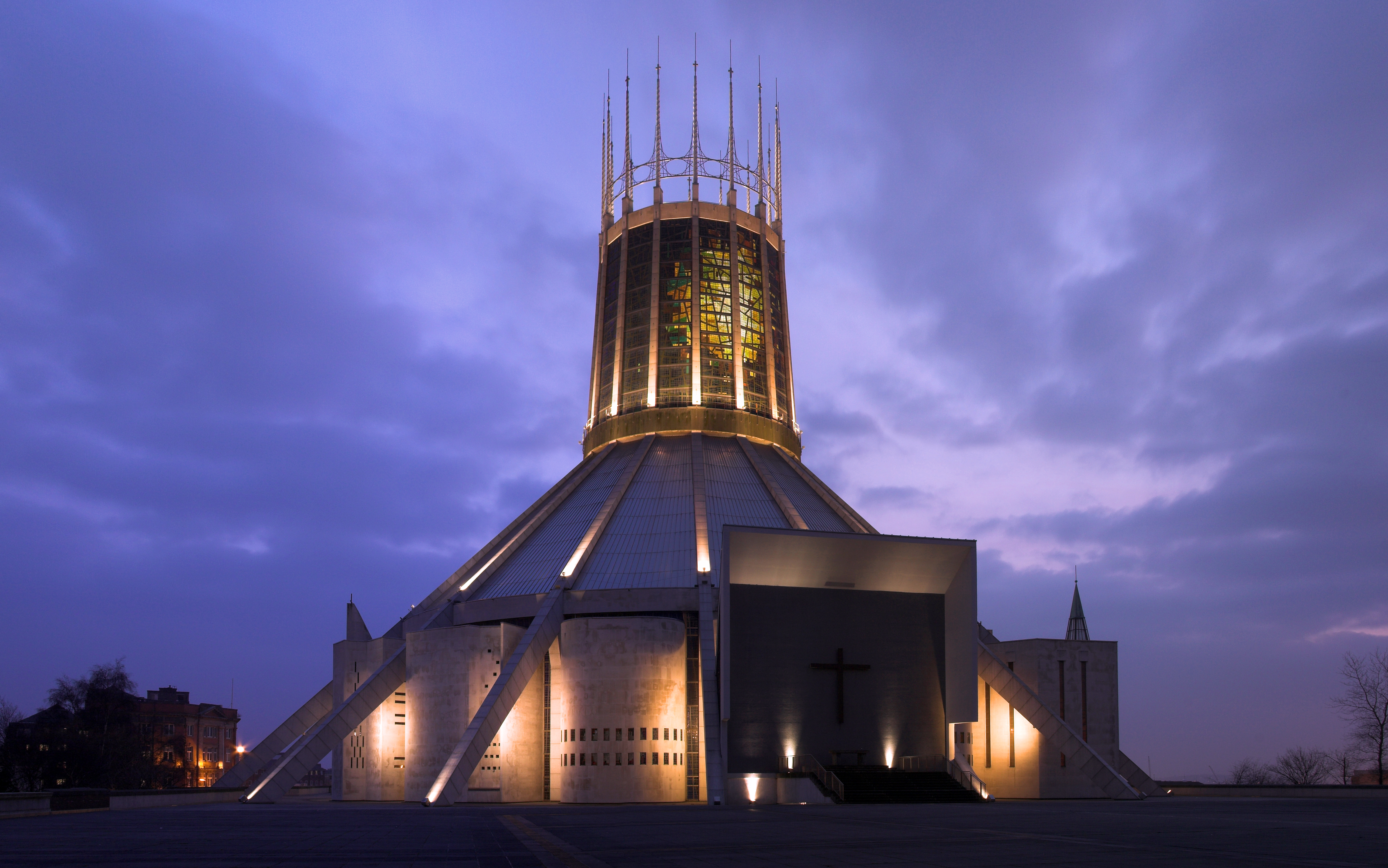 Liverpool Metropolitan Cathedral at dusk. Canon EOS 20D, 17-85 IS USM lens @ 26mm. 3.2 second exposure.